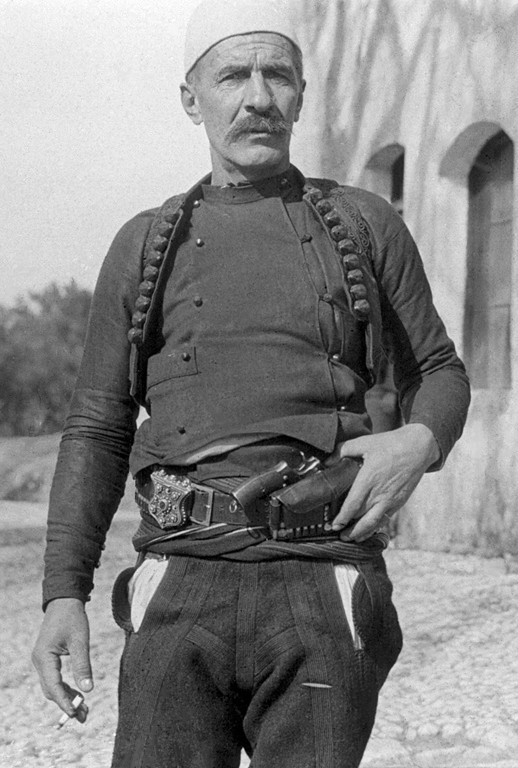 Isa Boletini, Dutch Military Mission (1914)